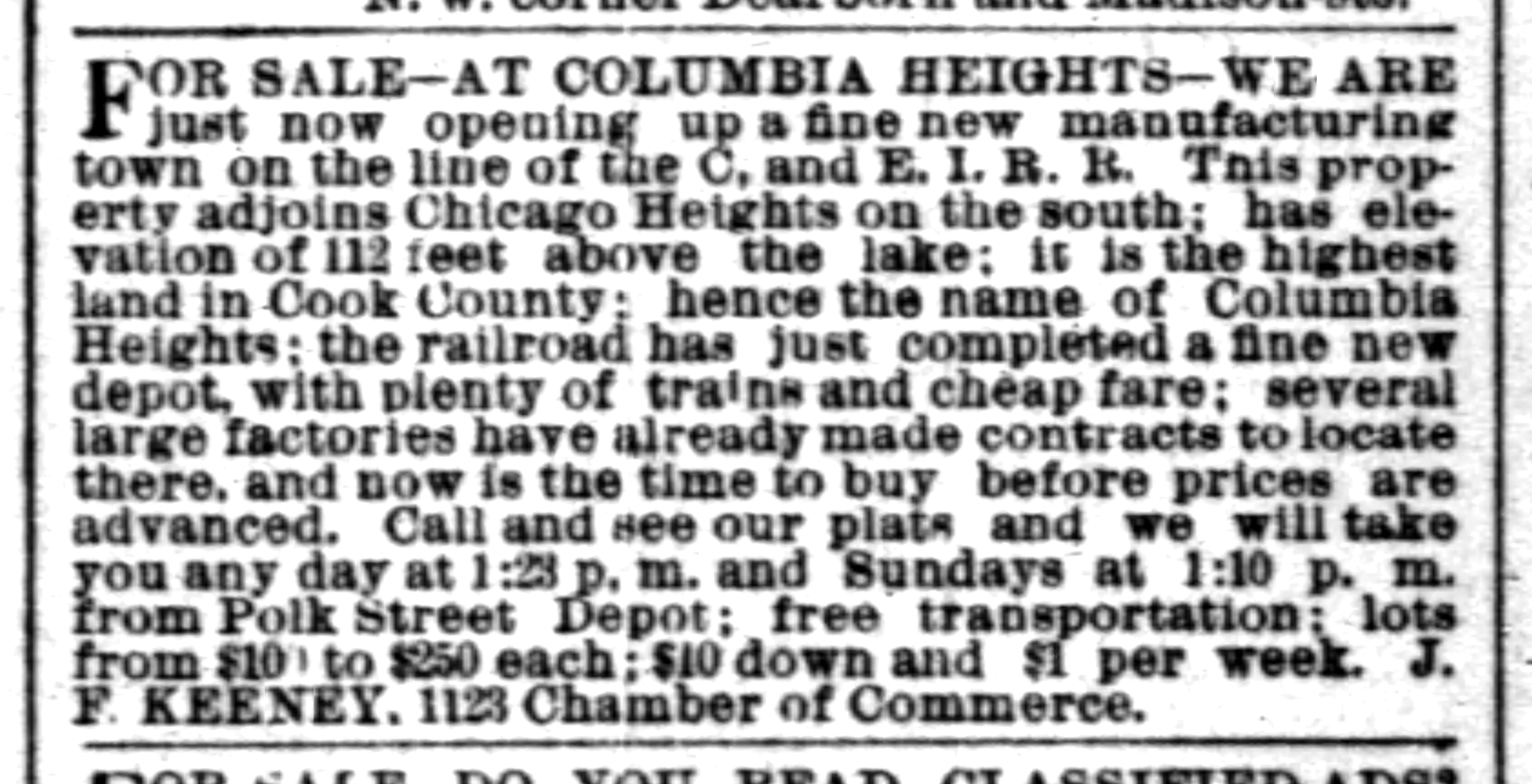 Classified ad in the Chicago Tribune offering real estate for sale in the newly developing community of Columbia Heights (now Steger) Illinois